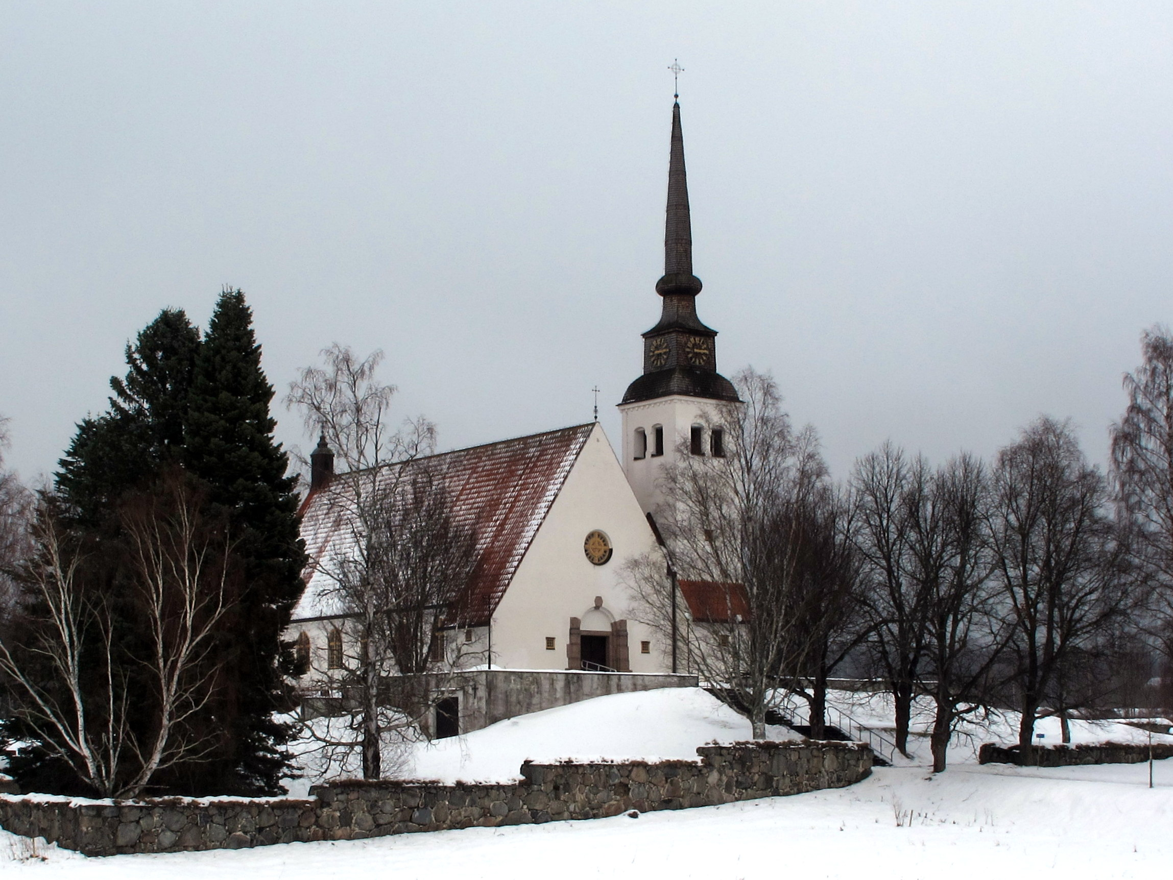 Church of Åmot, Sweden.